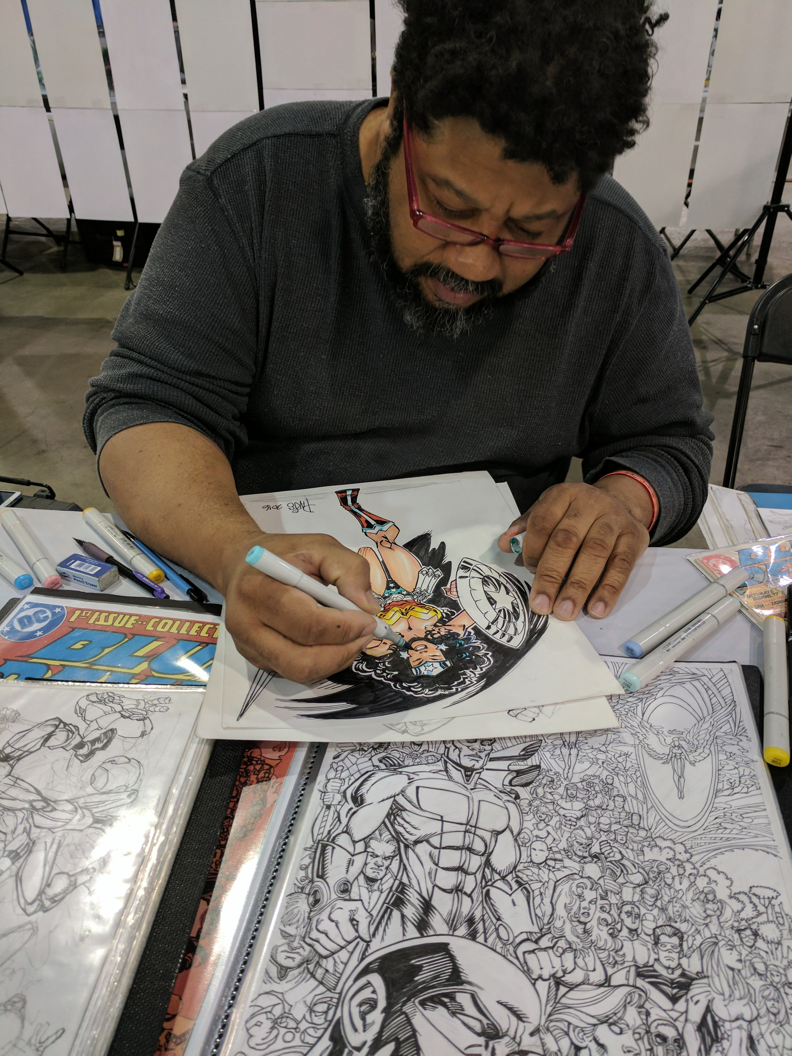 Comics artist Paris Cullins colors an original sketch of Wonder Woman at Wizard World Philadelphia